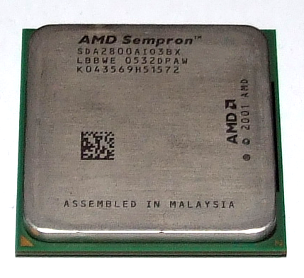 AMD Sempron 2800+ for socket 754, Revision E6, Palermo core